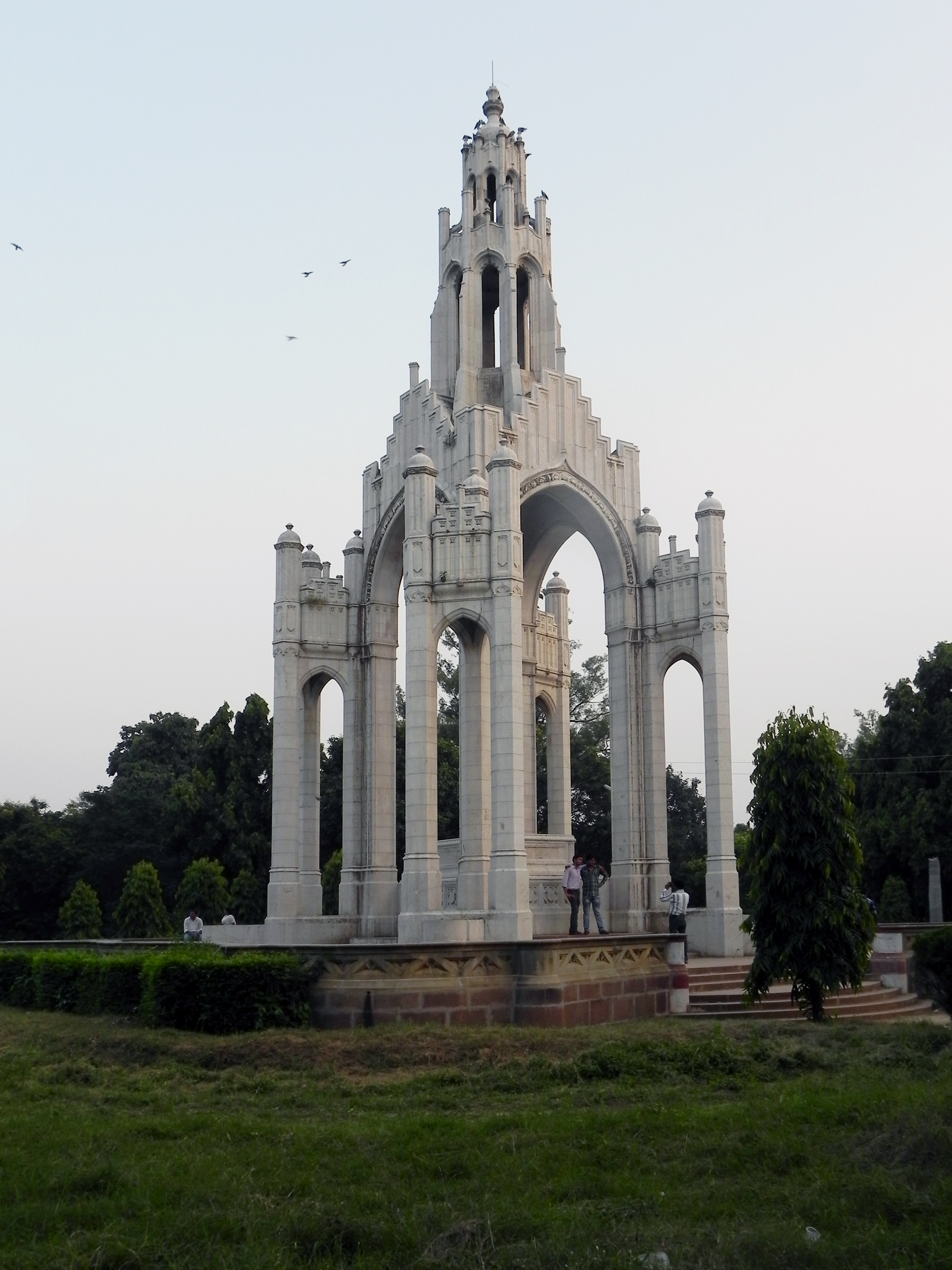 Queen Victoria's Memorial in Alfred park